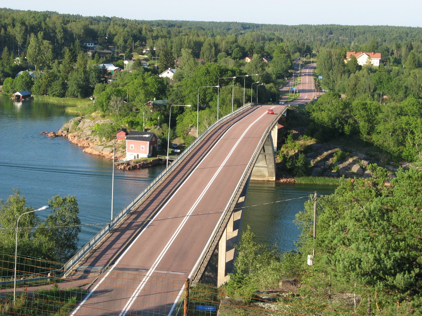 Bridge carrying Main road 2 over Färjsundet bay in Finström and Saltvik in Åland, Finland